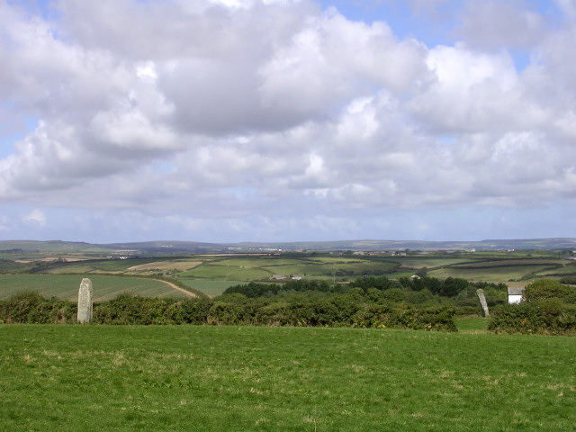 "The Pipers" standing stones near Boleigh Farm. These two standing stones are on private land to the south of Boleigh Farm. They are only a few hundred metres to the NE of the Merry Maidens stone circle, and (so the usual legend has it) these were the two pipers who were accompanying the maidens in their dancing on the Sabbath. The one on the right is leaning at quite a jaunty angle.